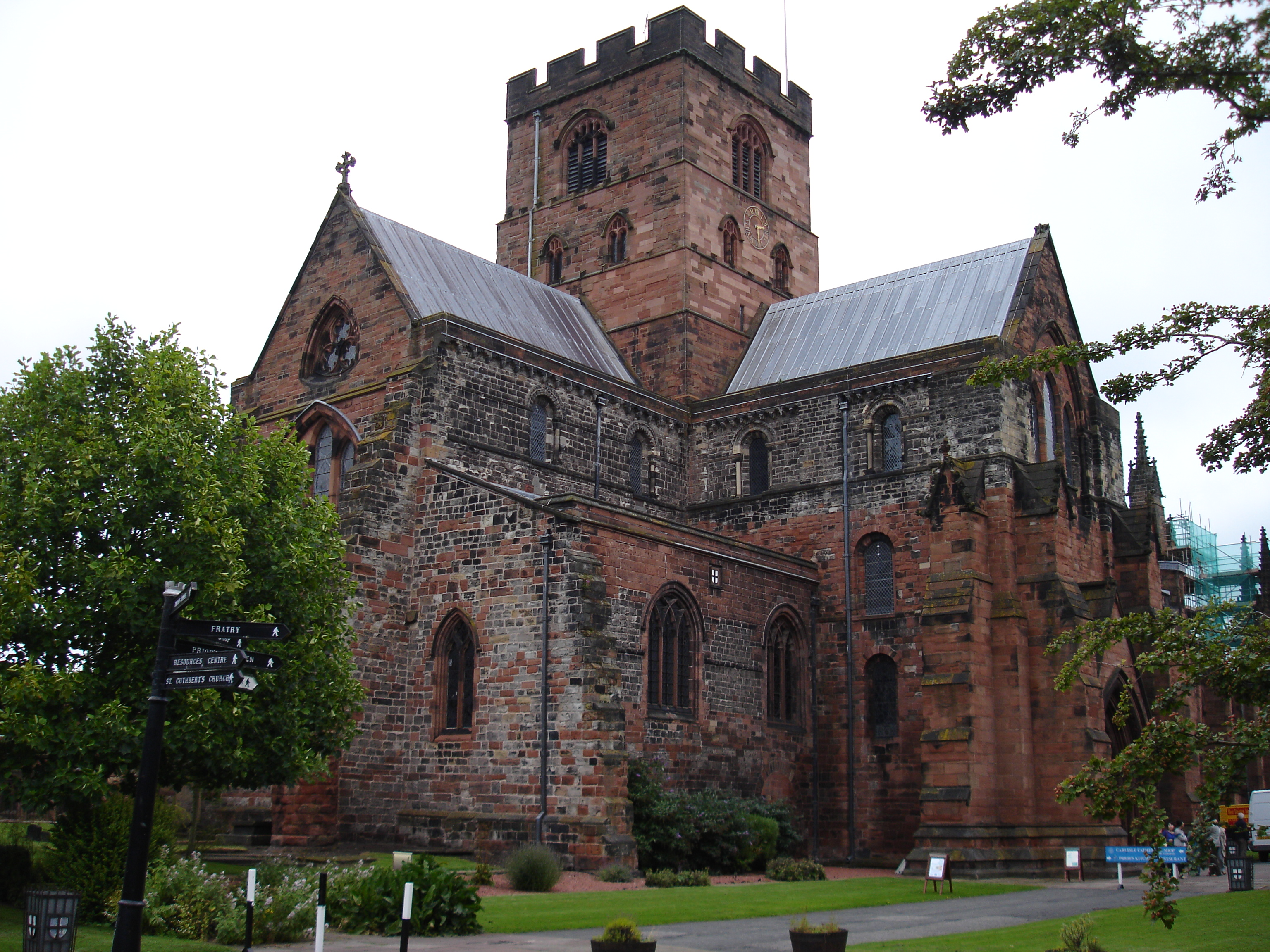 Photograph of Carlisle Cathedral, Cumbria, England